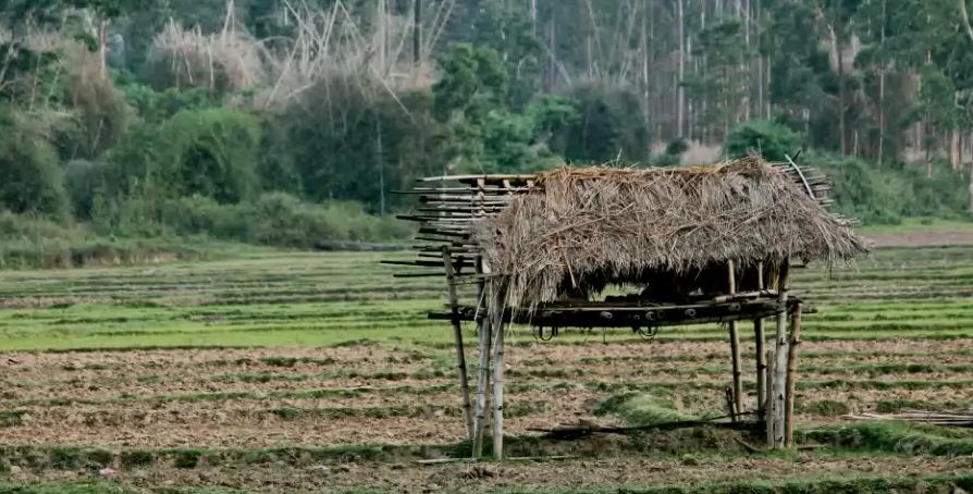 Small watch hut near a paddy filed in Muthanga.